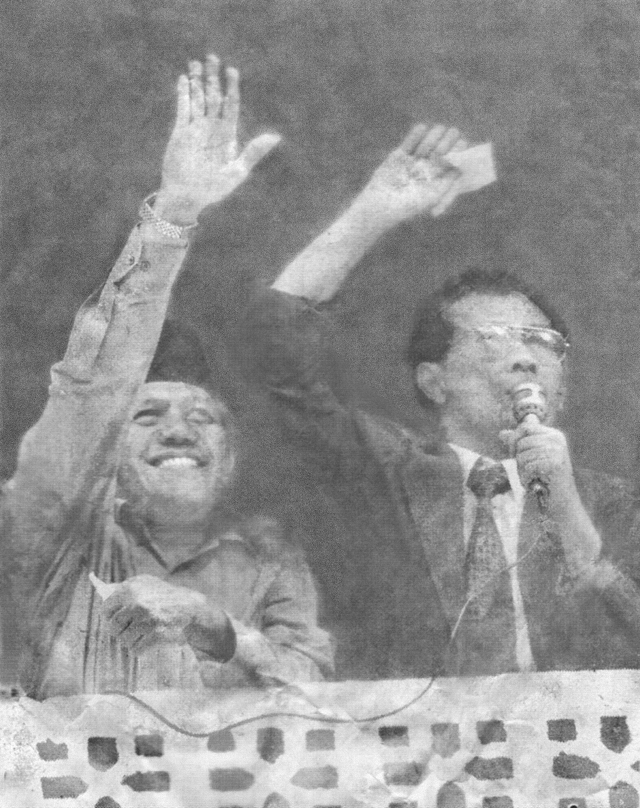 Opposition politician Sri Bintang Pamungkas (right) and trade union leader Mukhtar Pakpahan on the balcony of the prisoner wing of Cipinang Prison in Jakarta greet their supporters, who were waiting in front of the prison for hundreds after the announcement of their release by the government.